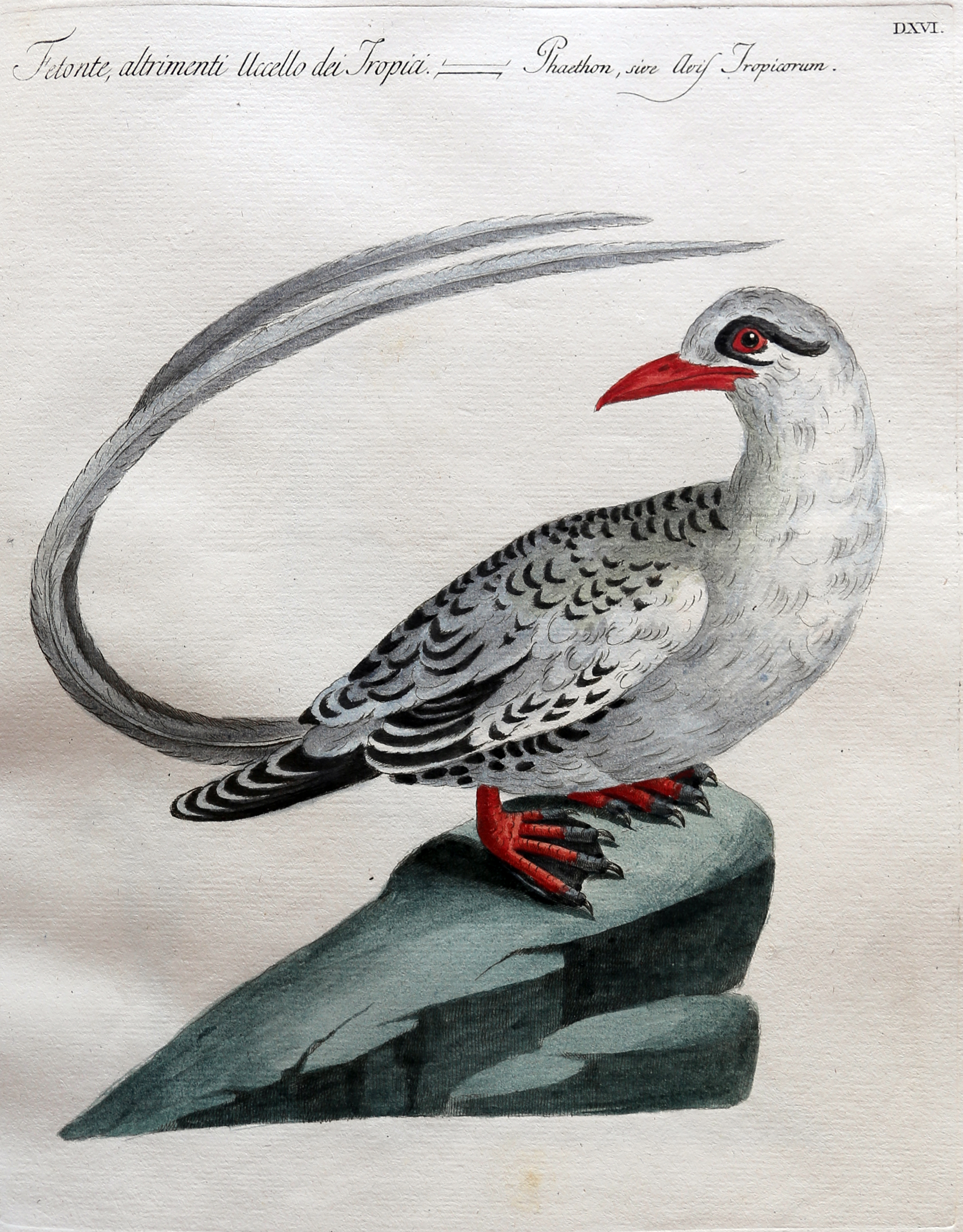 Ornithologia methodice digesta (Crusca)